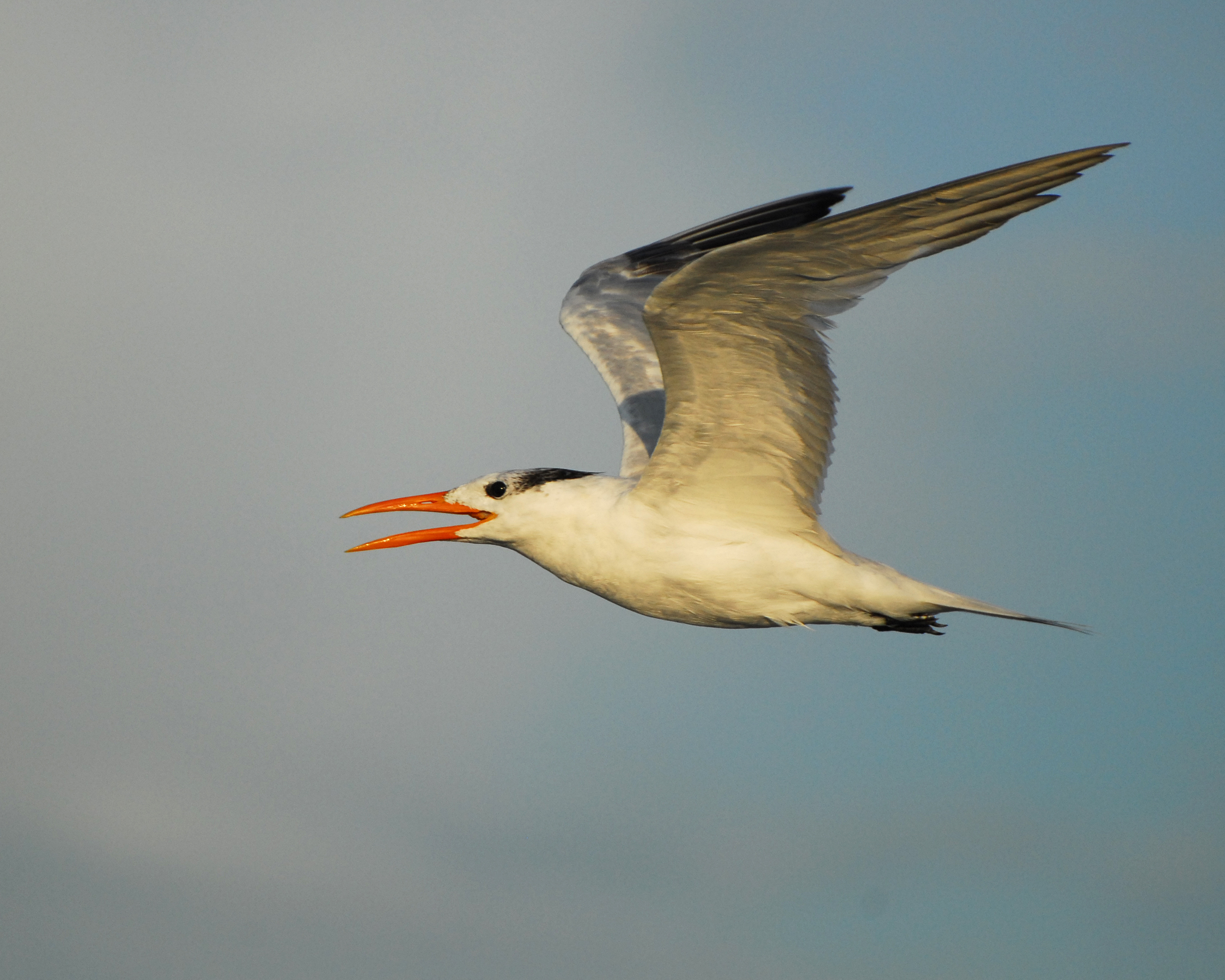 Photo by Matt Edmonds. Royal tern in winter plumage. Photo September 2007, Ft. DeSoto Park, FL.